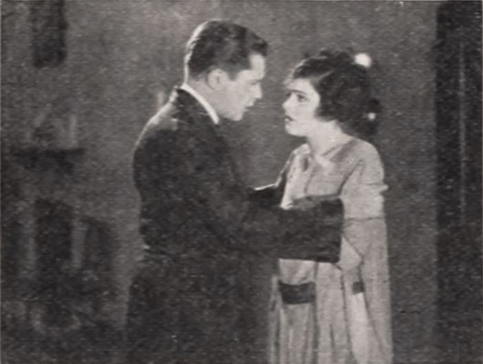 Still from the American comedy drama film Why Announce Your Marriage? (1922) with Niles Welch and Elaine Hammerstein, on page 61 of the February 4, 1922 Exhibitors Herald.